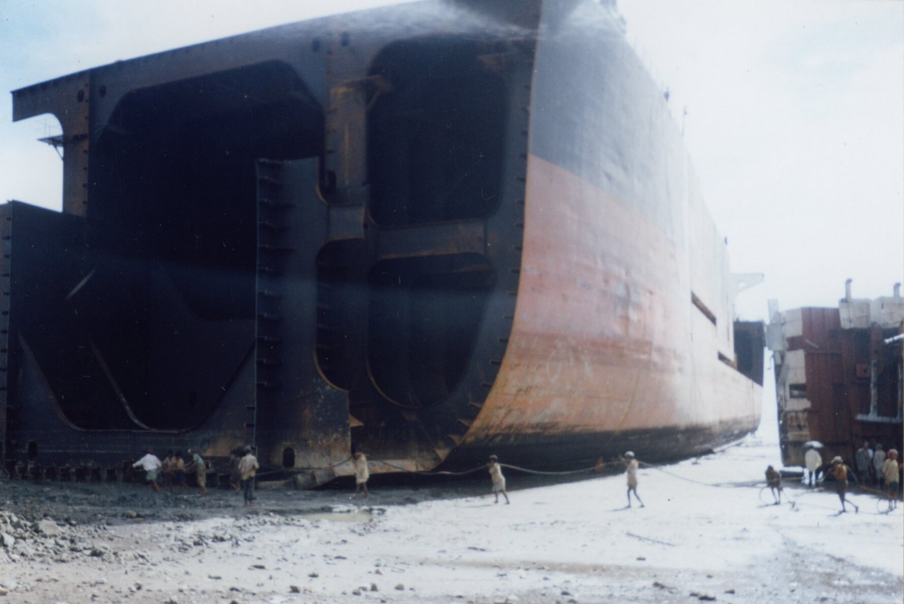 Shipbreaking near Chittagong in Bangladesh.